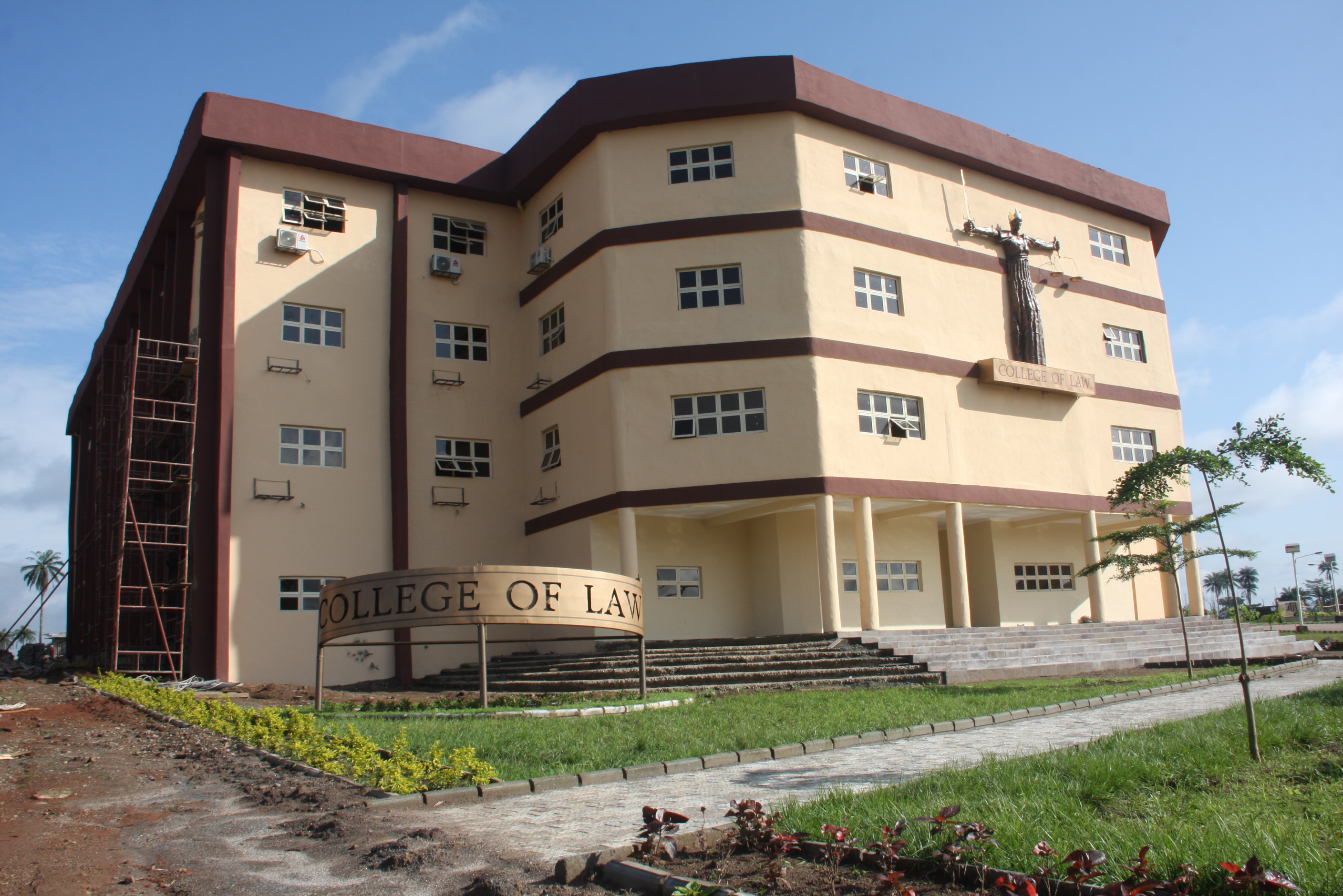 the Magnificent college of Law